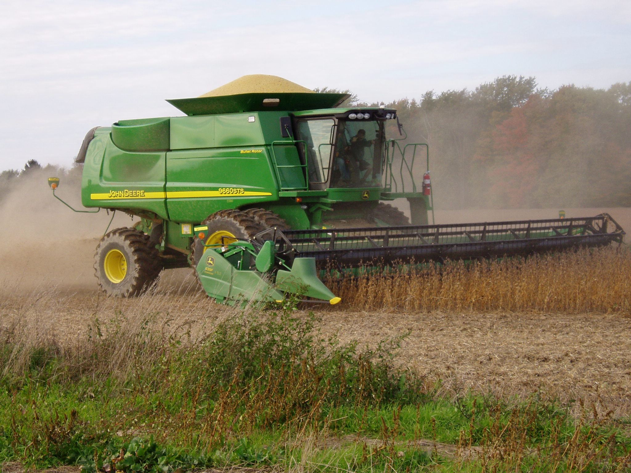 Soybean harvest with a John Deere 9660STS combine harvester, Michigan, USA.